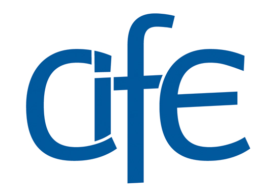 CIFE-Logo